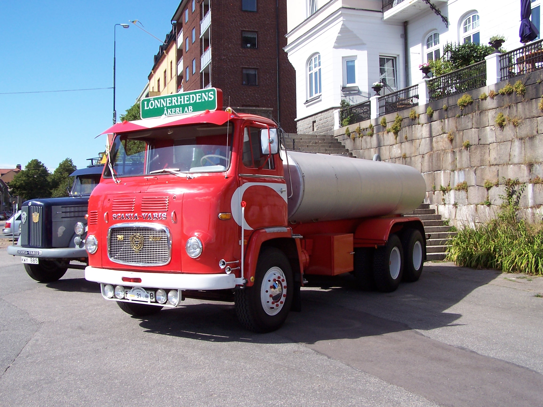 Scania Vabis LBS76 (year 1968).